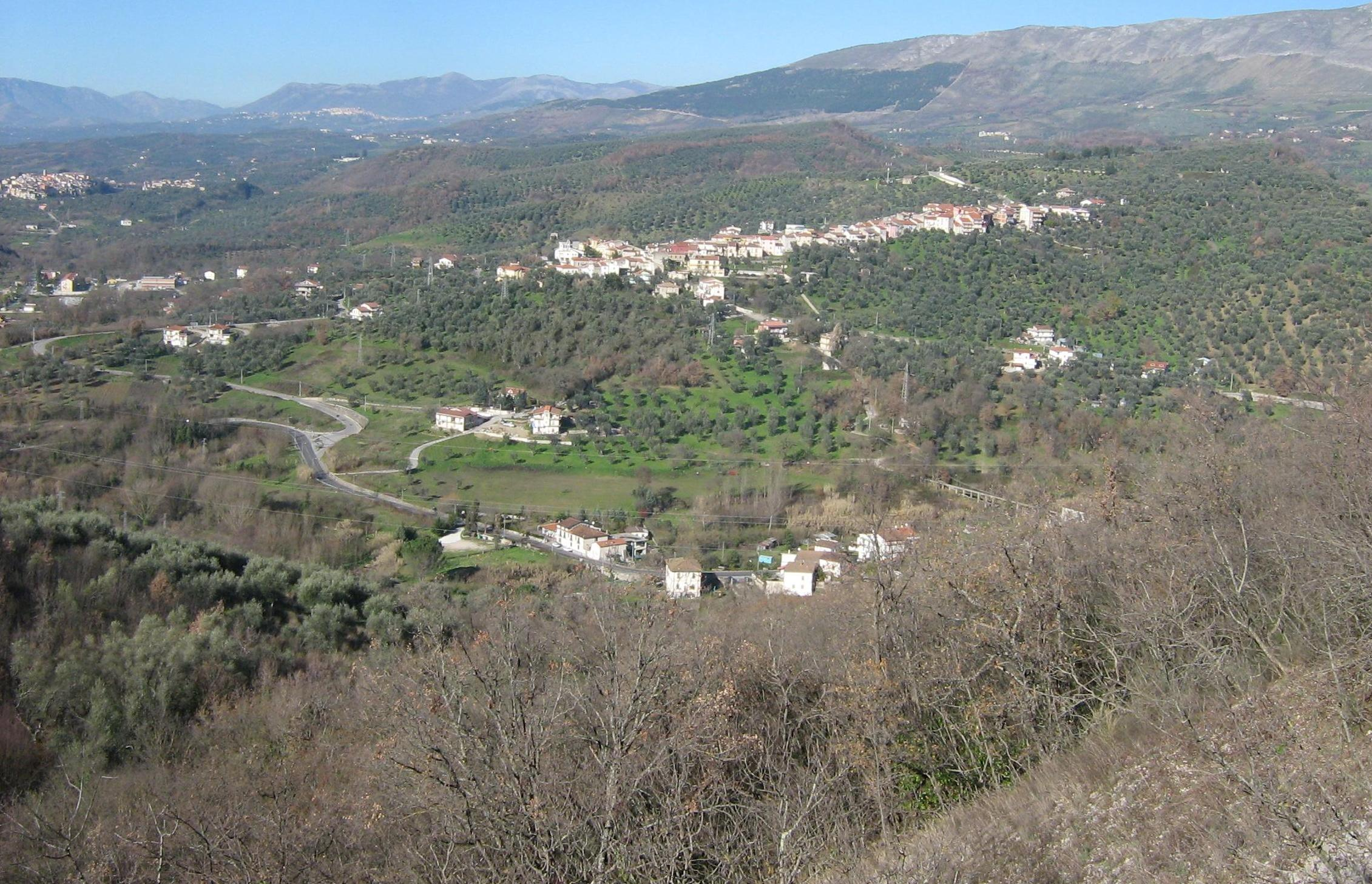 Panorama of Pertosa from the railway station